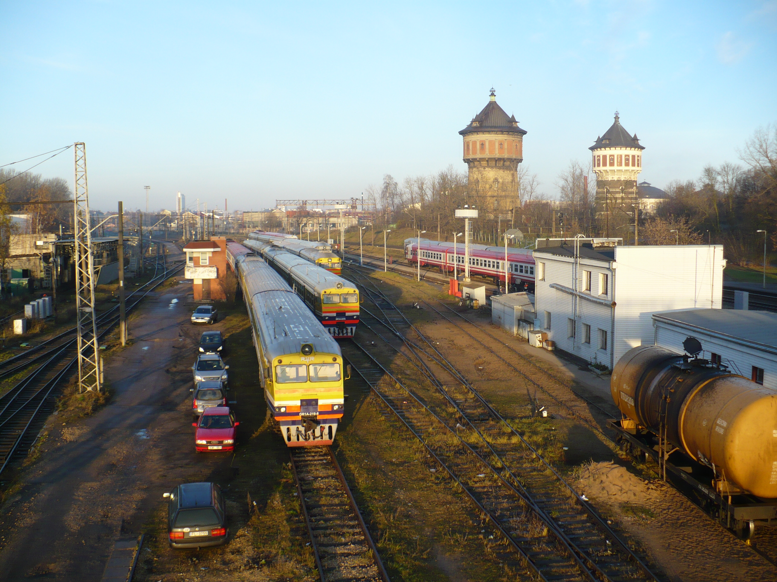 "Train park" and water towers in Riga.